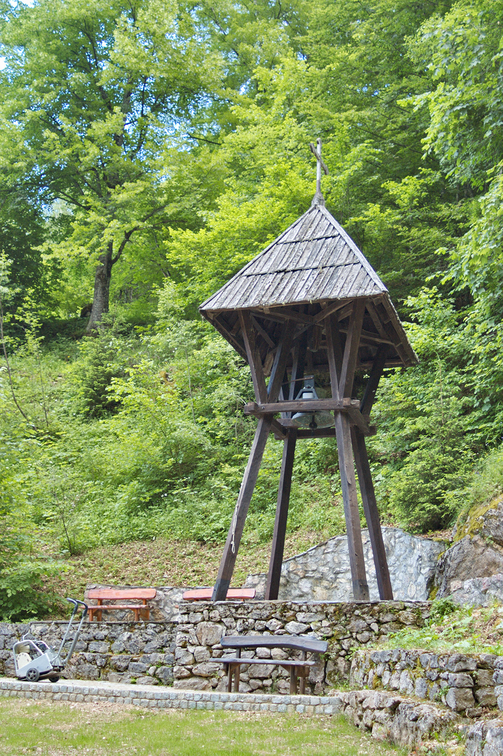 Panoramic scenes of the Pester plateau, karst region in southwestern Serbia. It situated in the area of Raska. The most part of Pešter is located in the municipality of Sjenica. The relief of Pester Plateau is characterized by low, hilly terrain, streams